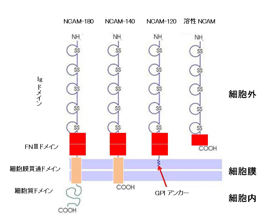 Japanese version of domain structure of NCAMs